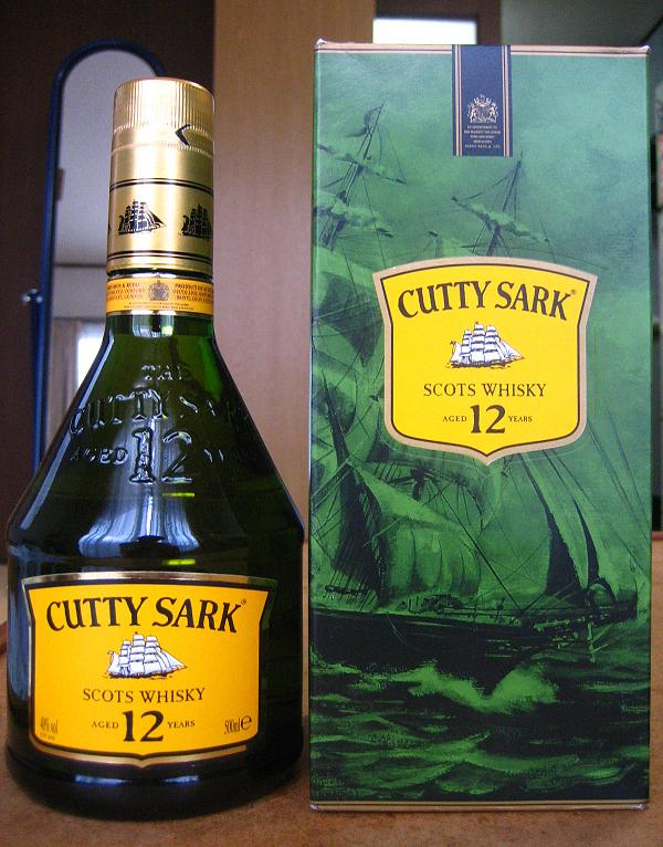 A bottle of Cutty Sark Scotch Whisky photographed in Japan with a Canon Power Shot SD450 Digital Elph camera. Image was modified using a Paint Shop program on a laptop computer.